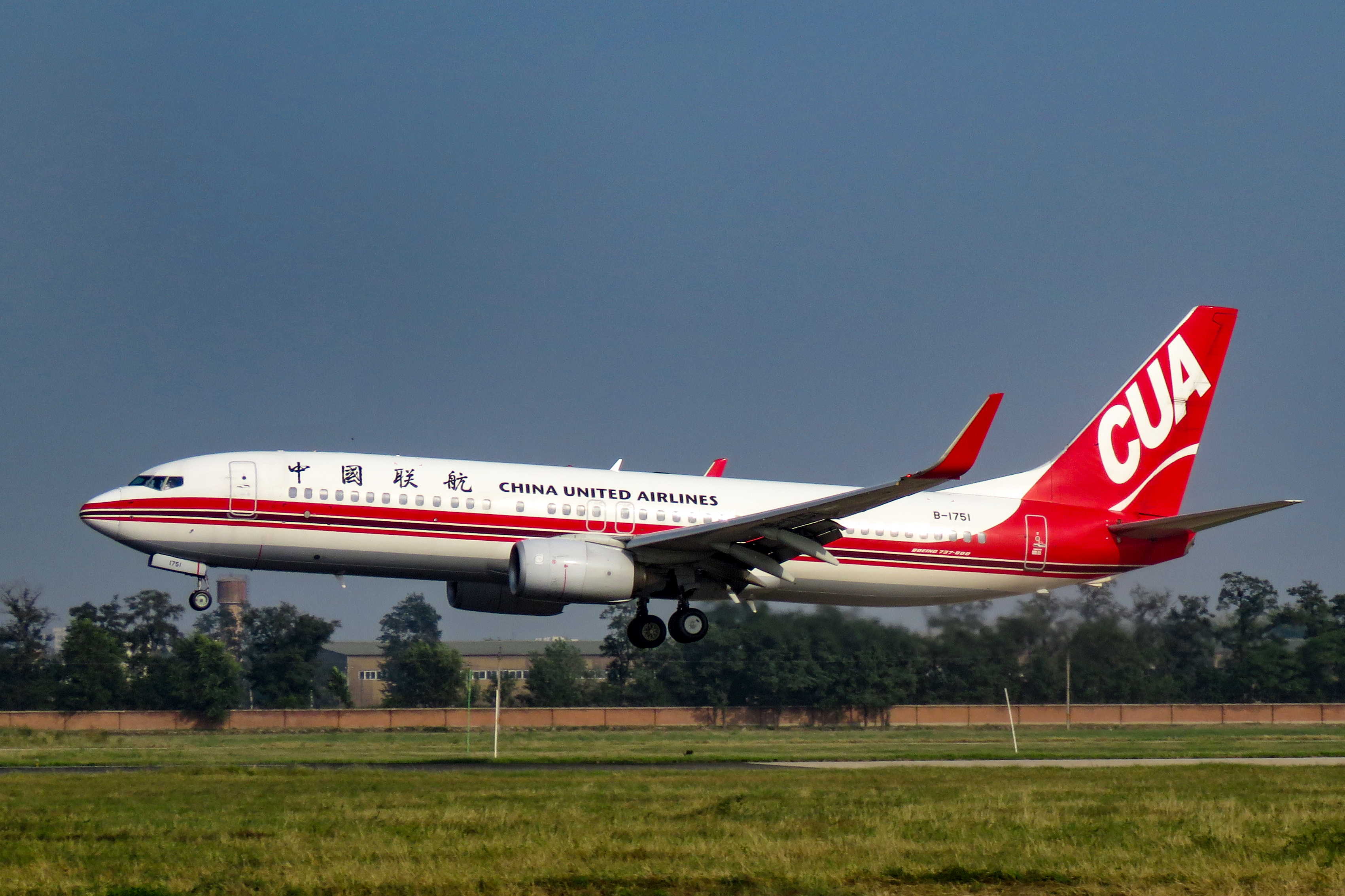 Lianhang 5862 from Foshan and Shiyan.